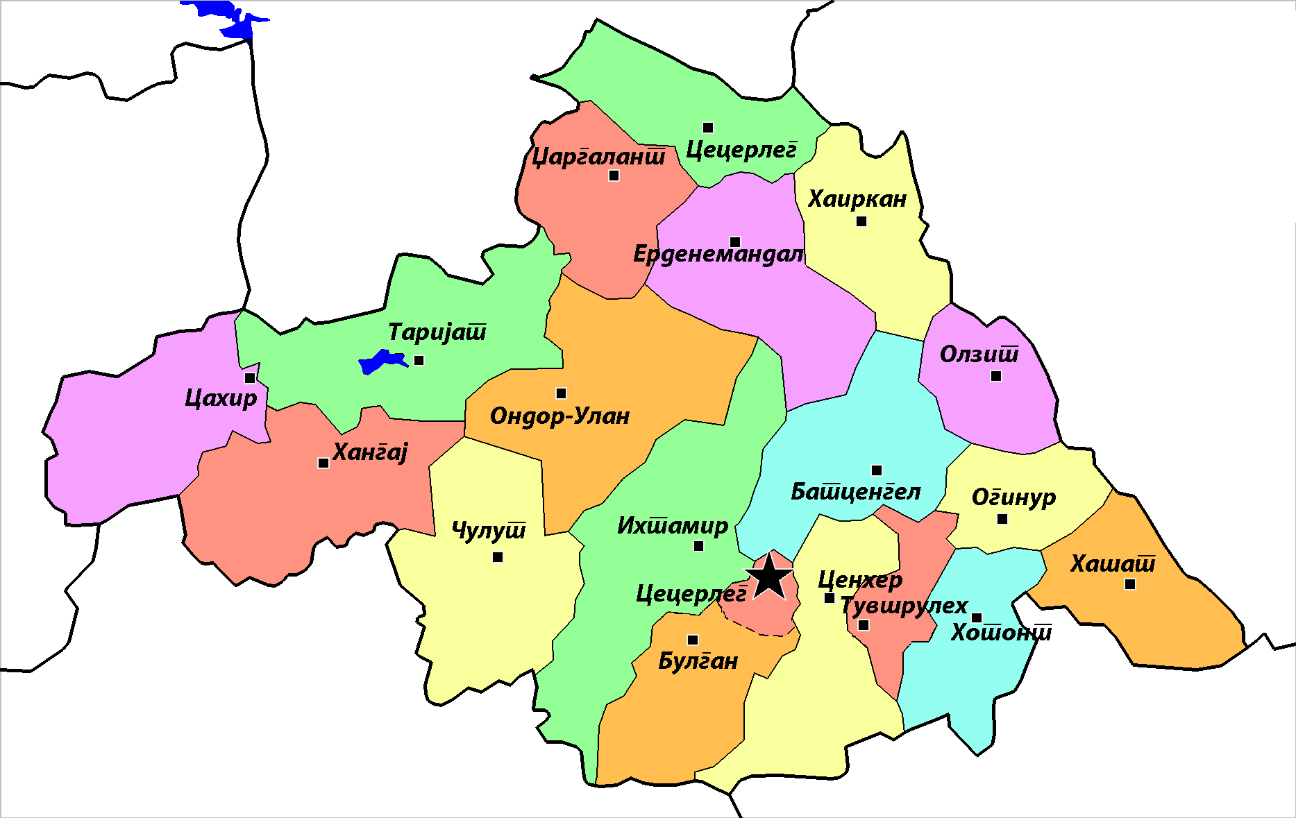 Translated map of Arkhangay sum on Macedonian language